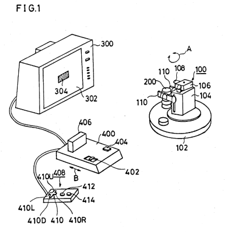 A video game apparatus patented by Nintendo that looks and functions mechanically similar to R.O.B., a robot-like peripheral released the year of initial filing.